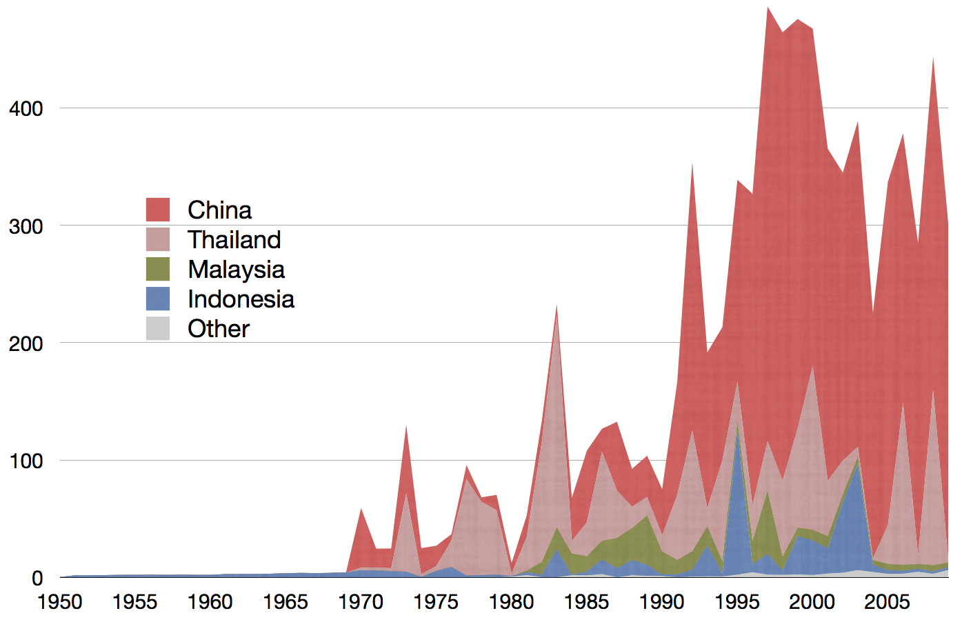 Global production of all jellyfish species in thousand tonnes, 1950–2009, as reported by the FAO. Based on data sourced from the FishStat database